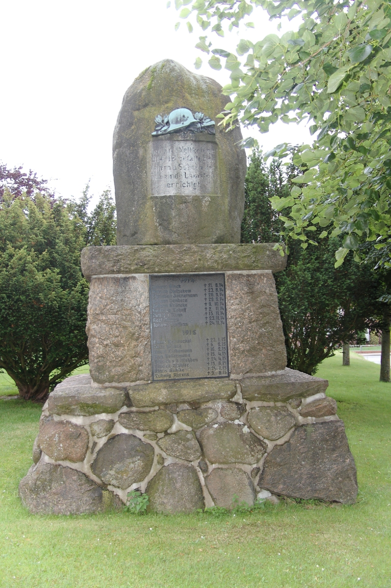 Pictures